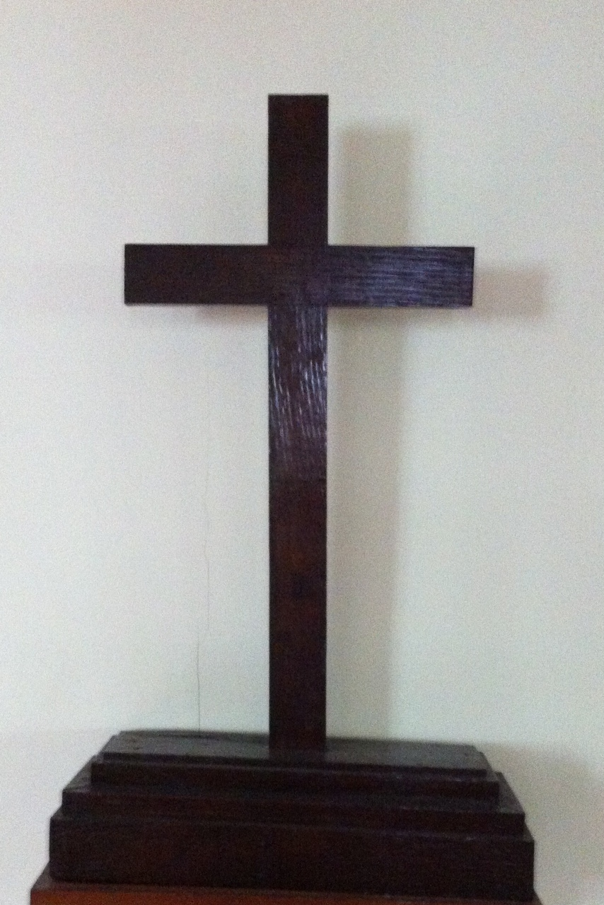 Young Teazer Cross Chester Nova Scotia - Anglican Church